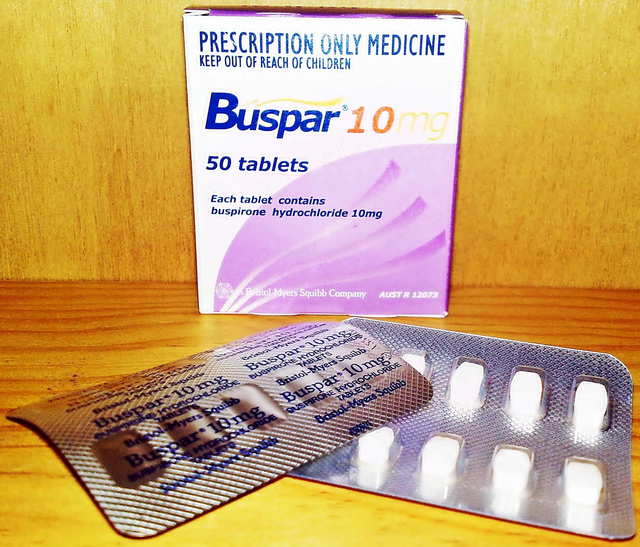 Buspar